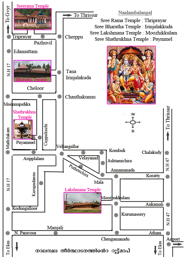 Route Map of Nalambalam Yathra in Kerala during the month of Karkitakam (Ramayana Masam)